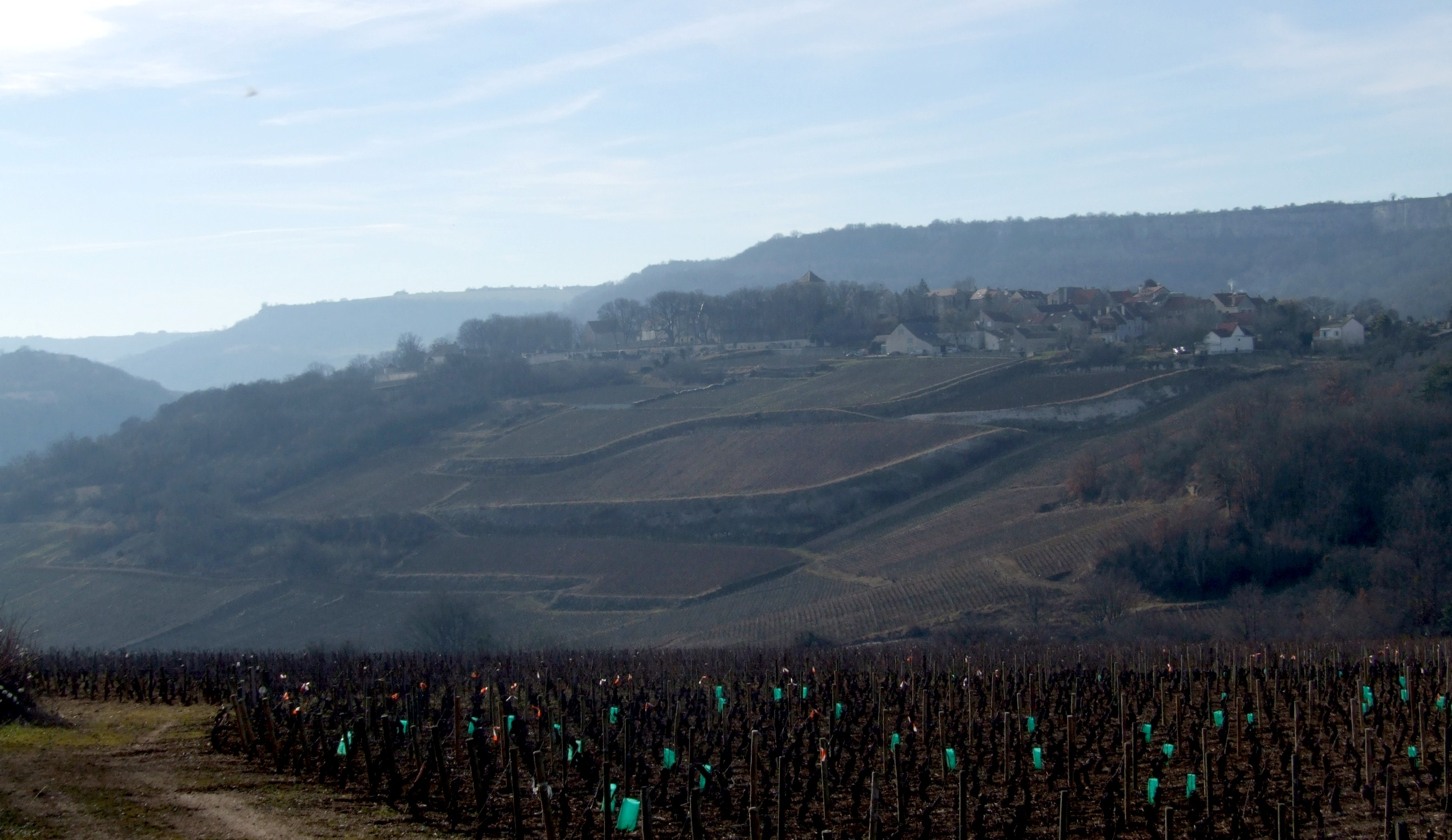 Saint-Romain, Côte-d'Or, Burgundy, FRANCE